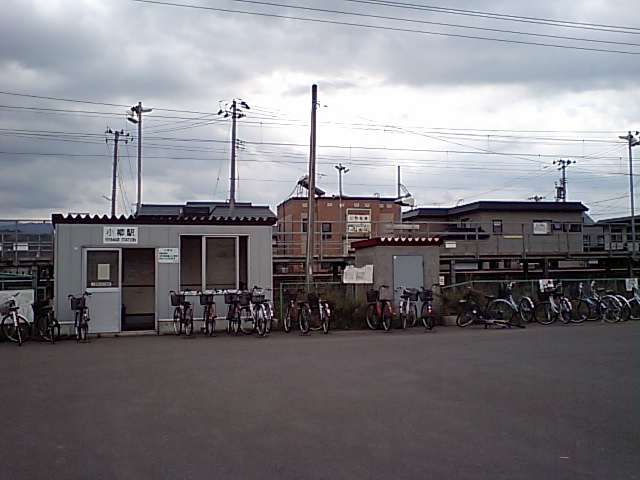 Aoimori Railway Koyanagi Station